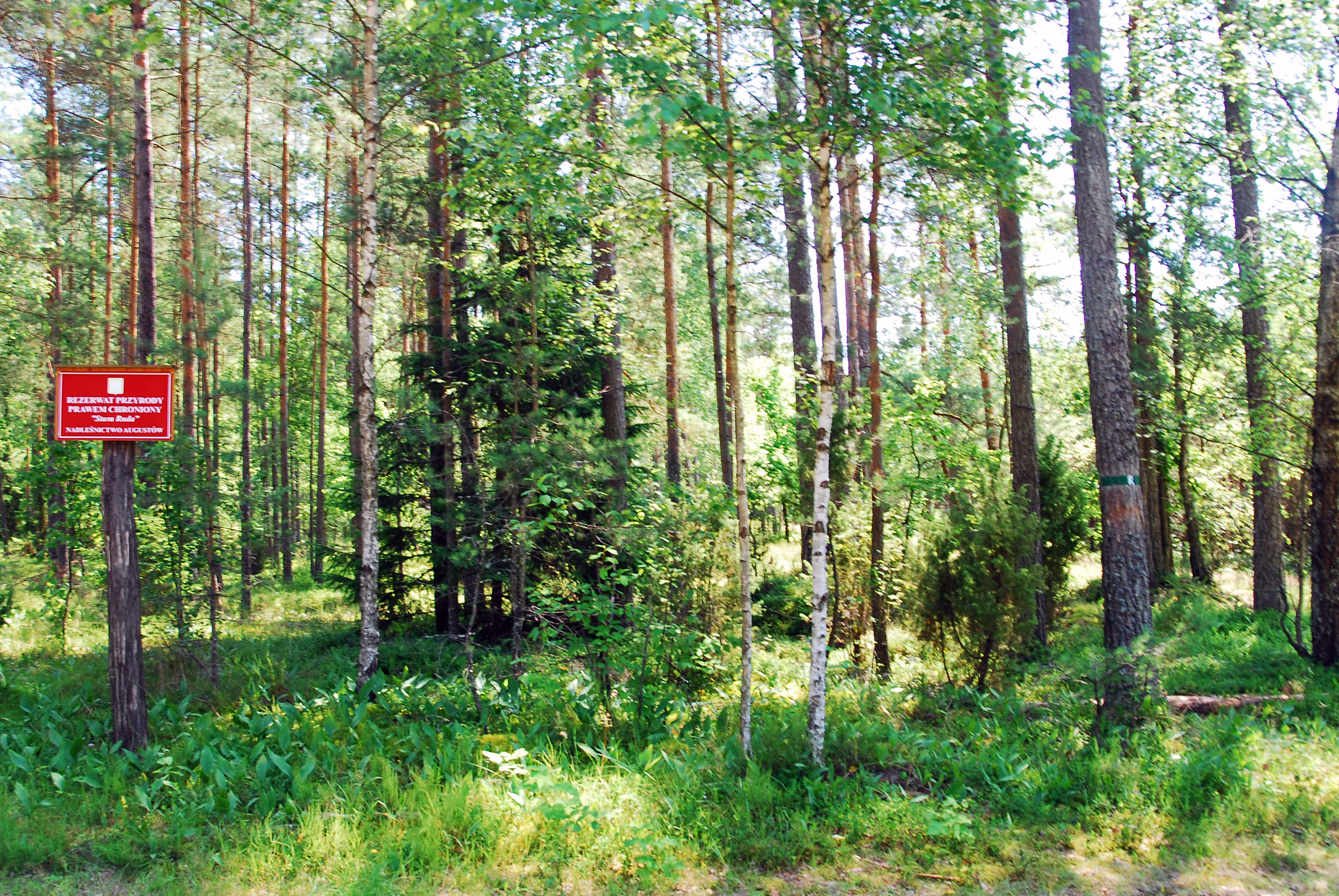 This photo from Podlaskie Voievodeship was taken during Polish Wikiexpedition 2009 set up by Wikimedia Polska Association. The making of this document was supported by Wikimedia Polska. Rezerwat Stara Ruda